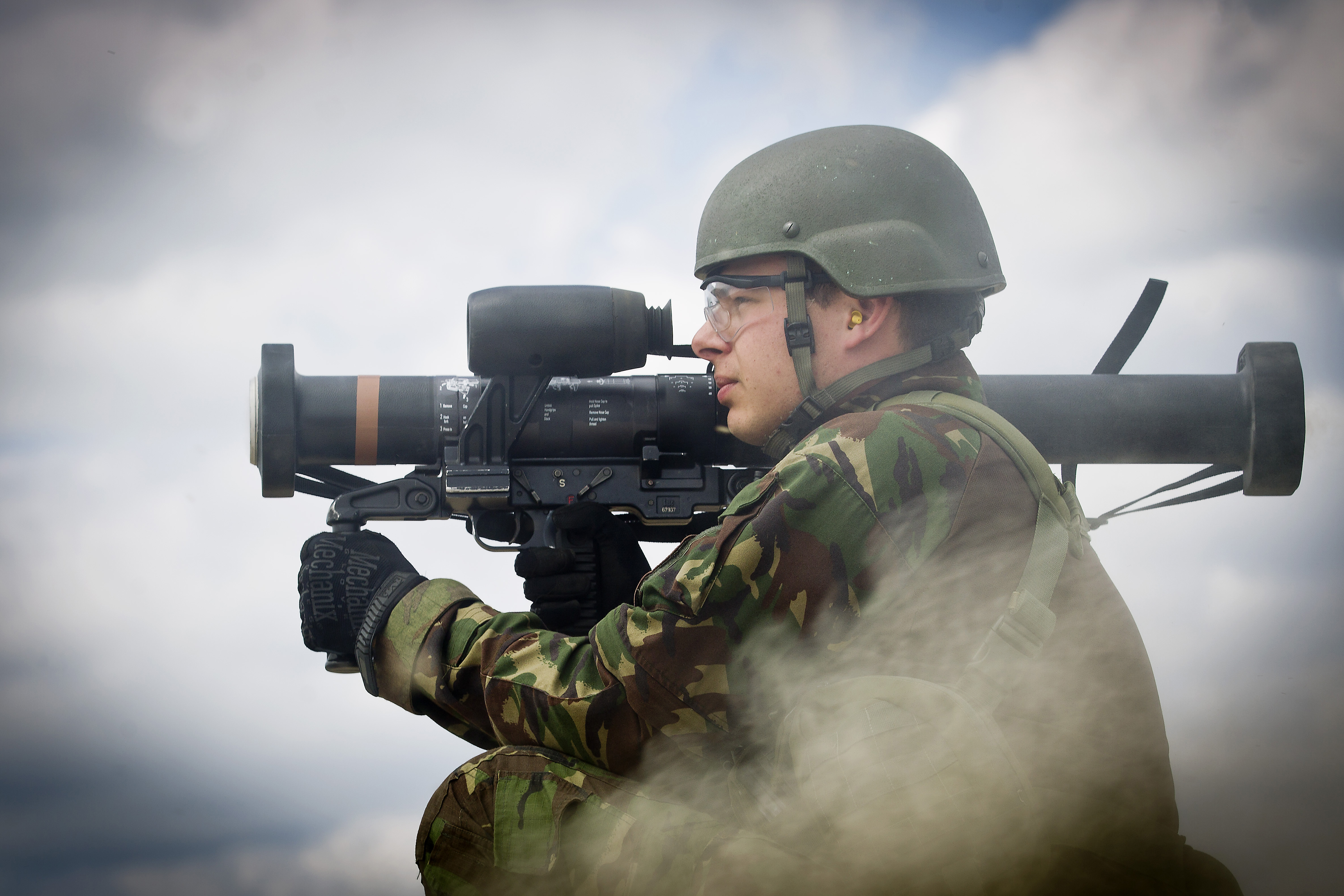 Dutch soldier fires "Panzerfaust" anti-tank weapon during Exercise Noble Jump, Poland. NATO’s new Very High Readiness Joint Task Force (VJTF) or ‘spearhead’ force is being deployed for the first time on Exercise NOBLE JUMP, taking place in Zagan, Poland from 9-19 June 2015. Over 2,100 troops from nine NATO nations are participating in the exercise, which continues the process of testing and refining the newly-formed VJTF. Photo: MCD/Evert-Jan Daniels